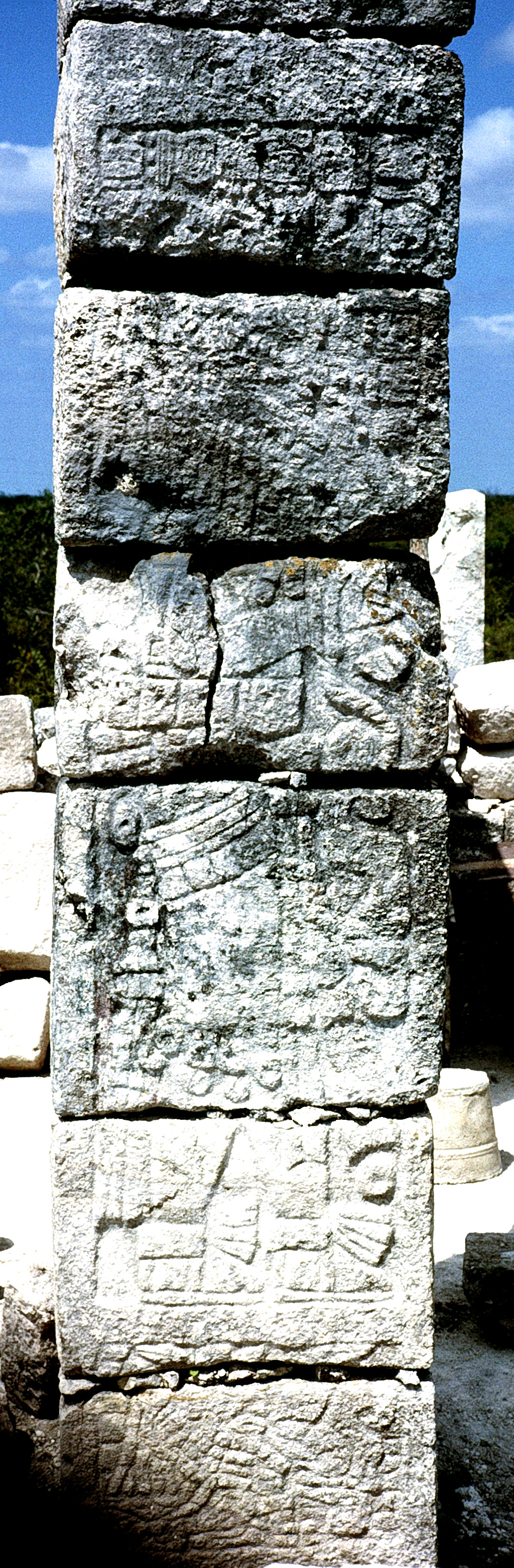 Chichen Itza, Yucatan, Mexico: Osario, Pillar with hieroglyphi inscription